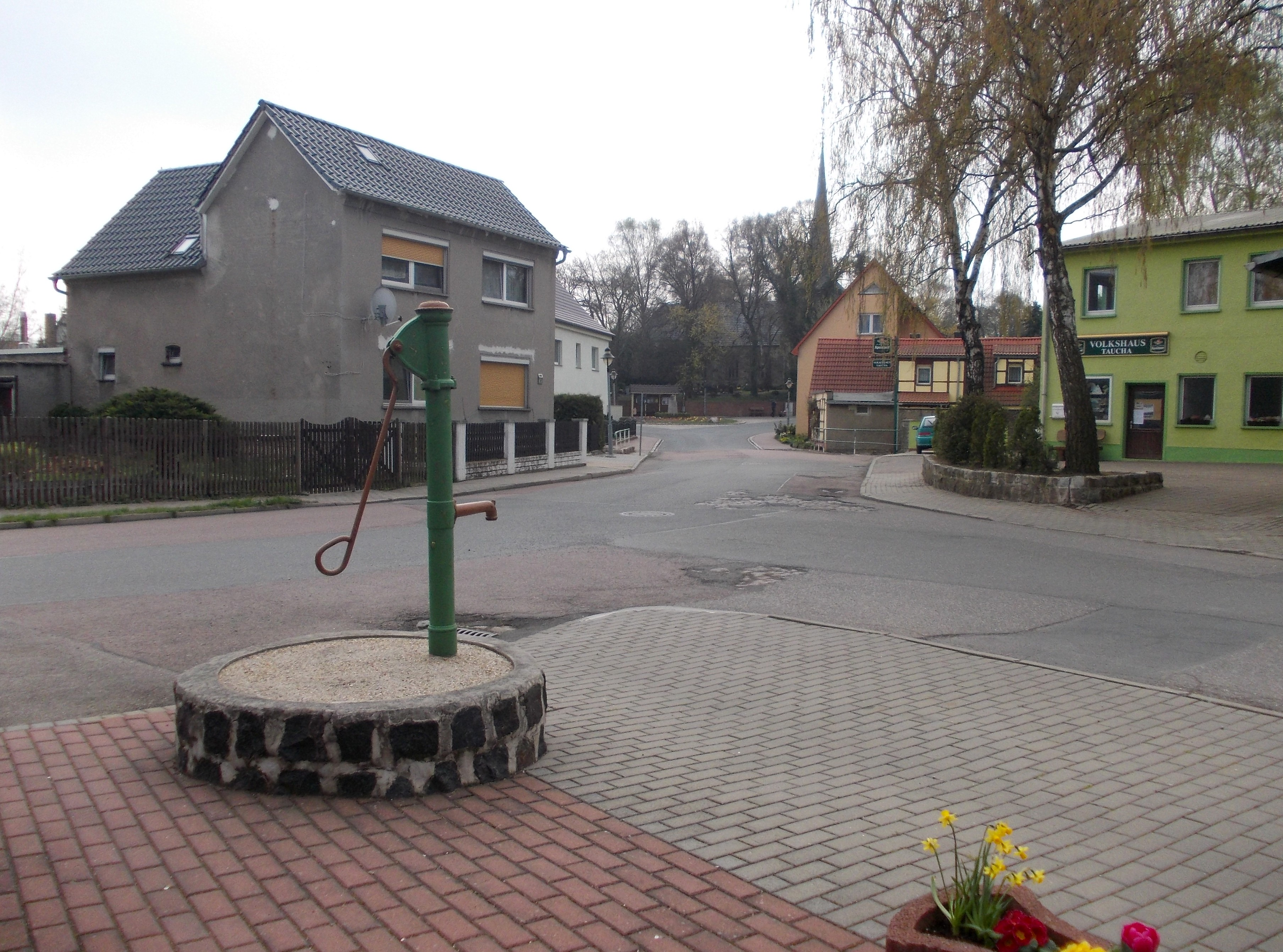 Pump in Taucha (Hohenmölsen, district: Burgenlandkreis, Saxony-Anhalt)